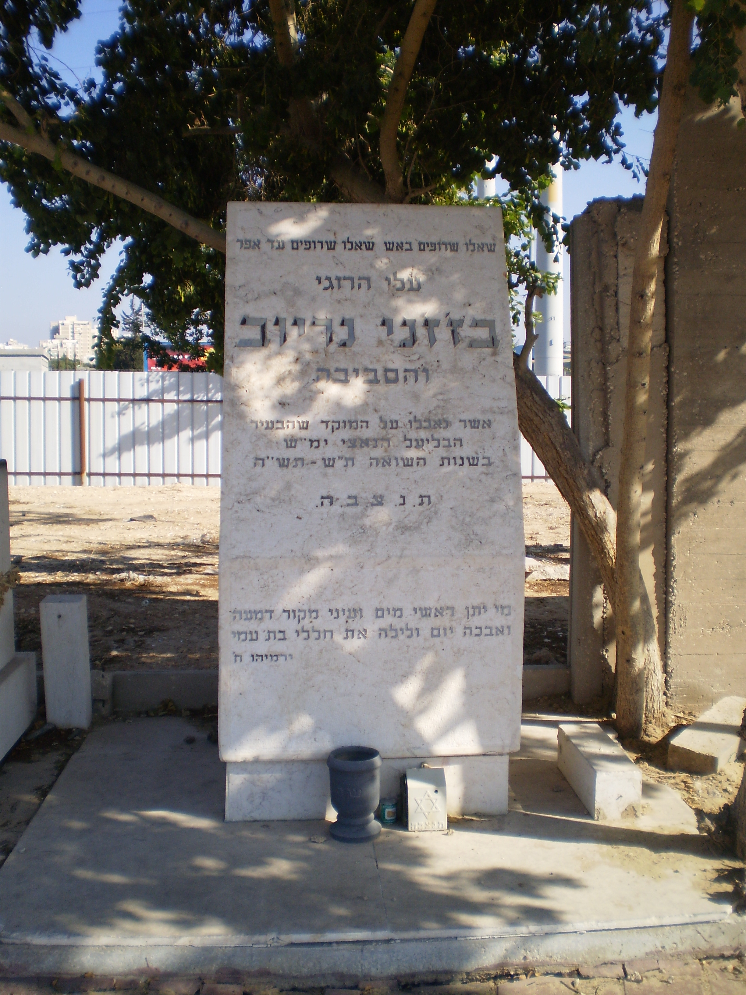 Berezhany and Narayiv Jewery Holocaust memorial at Holon Cemetery